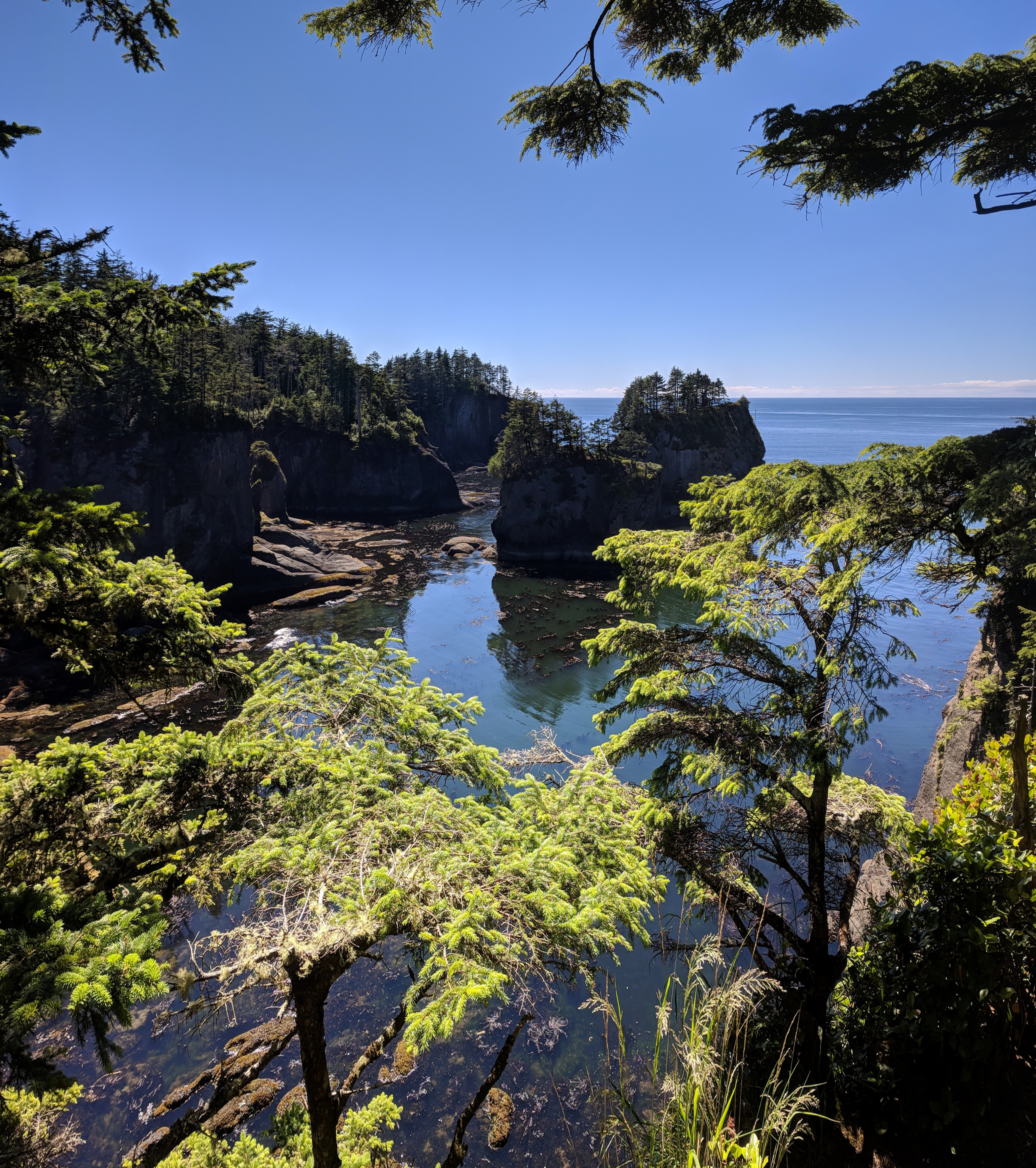 The view to the south from Cape Flattery, Washington